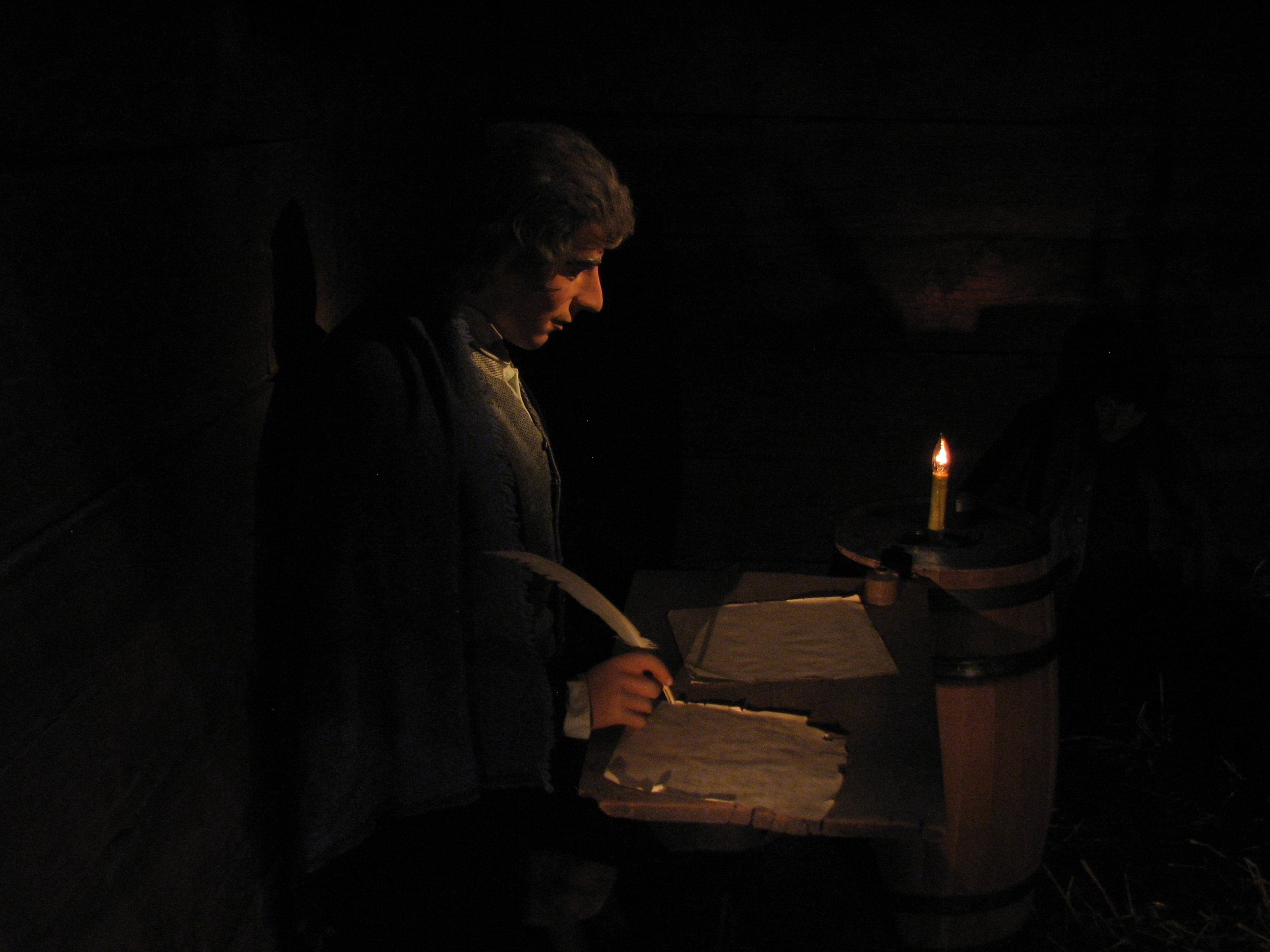 Joseph Smith in Liberty Jail